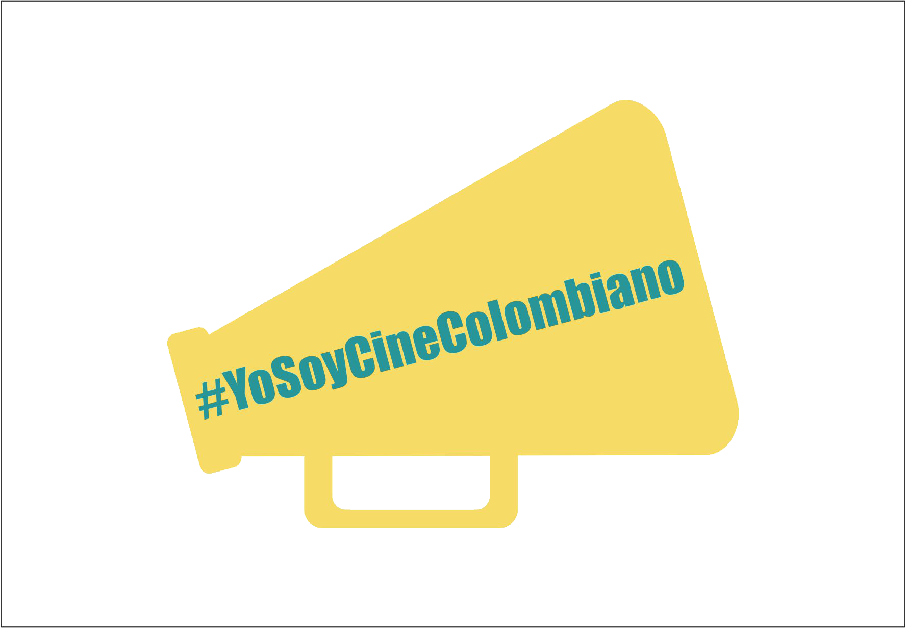 Logo macando al Barrio